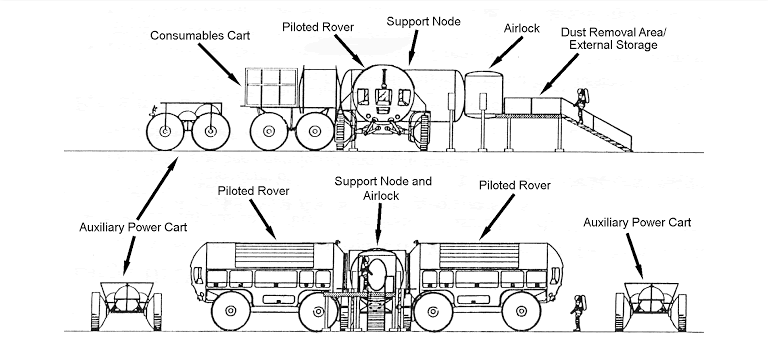 Phase 2 outpost with components identified. The lower image is turned 90 degrees relative to the top image. Image credit: NASA